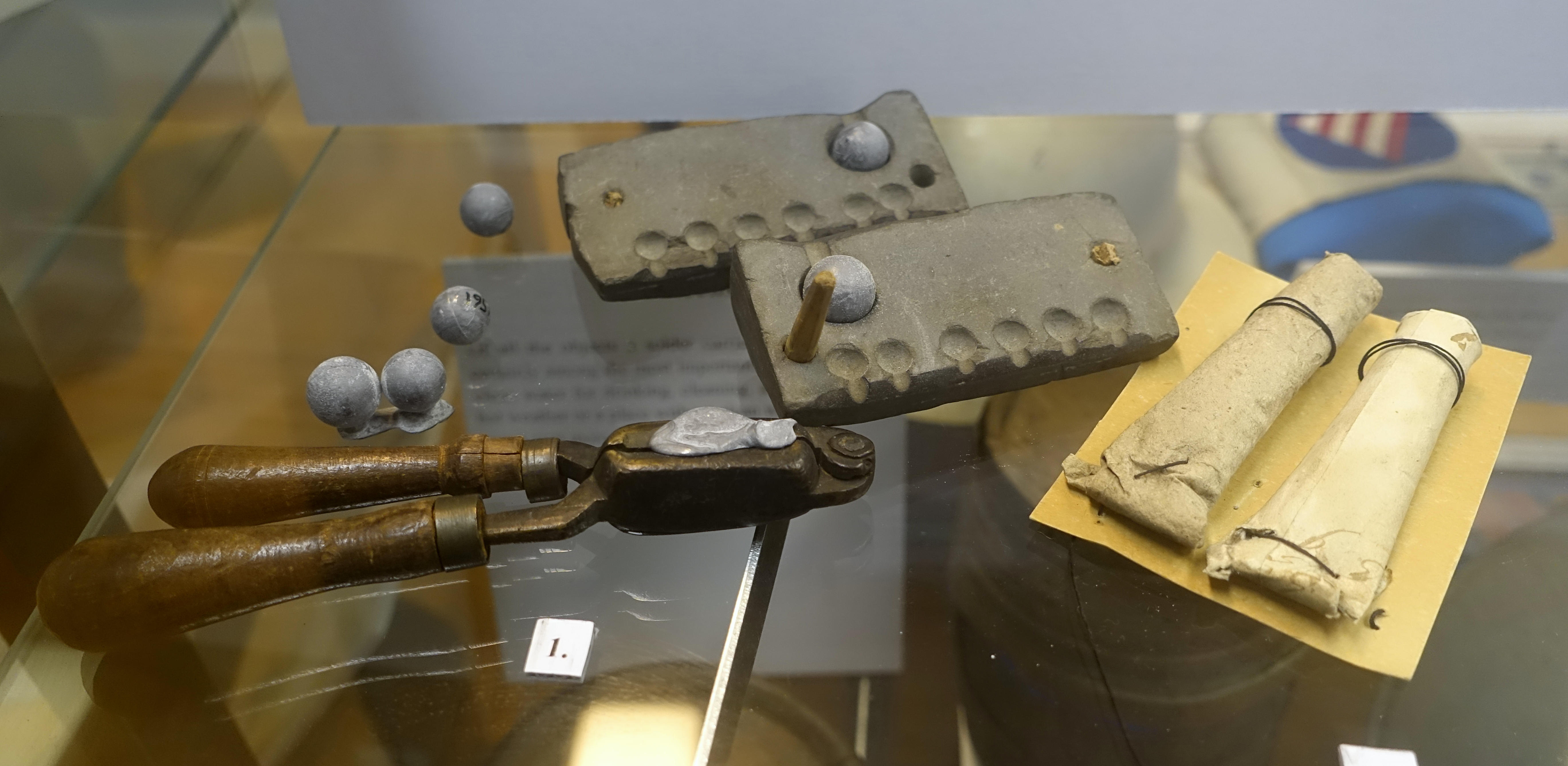 Exhibit in the Old Colony History Museum - Taunton, Massachusetts, USA.